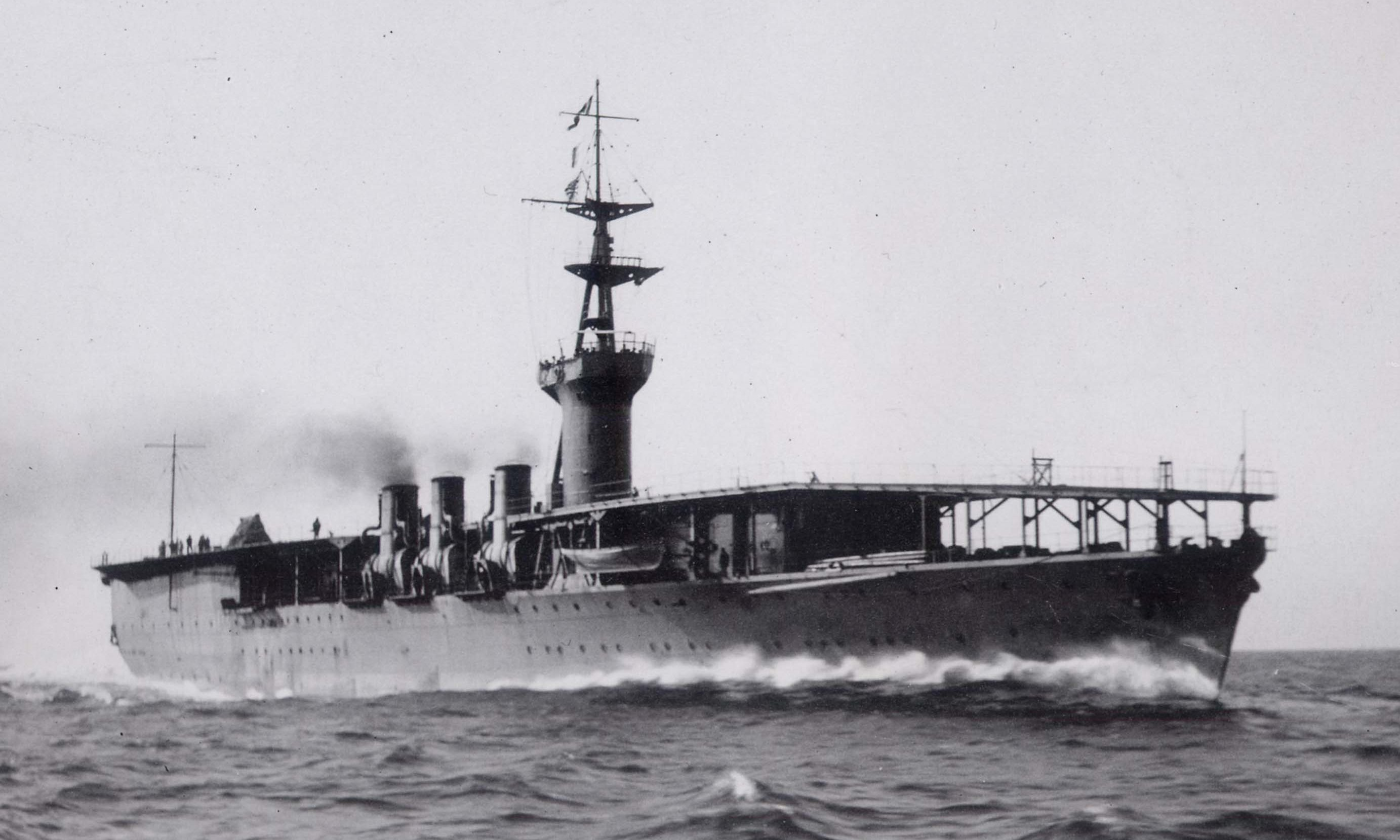 鳳翔 日本海軍航空母艦 千葉県館山沖標柱間にて全力公試中の写真。 Imperial Japanese Navy's aircraft carrier, Hosho on its trial run at full power near Tateyama, Japan